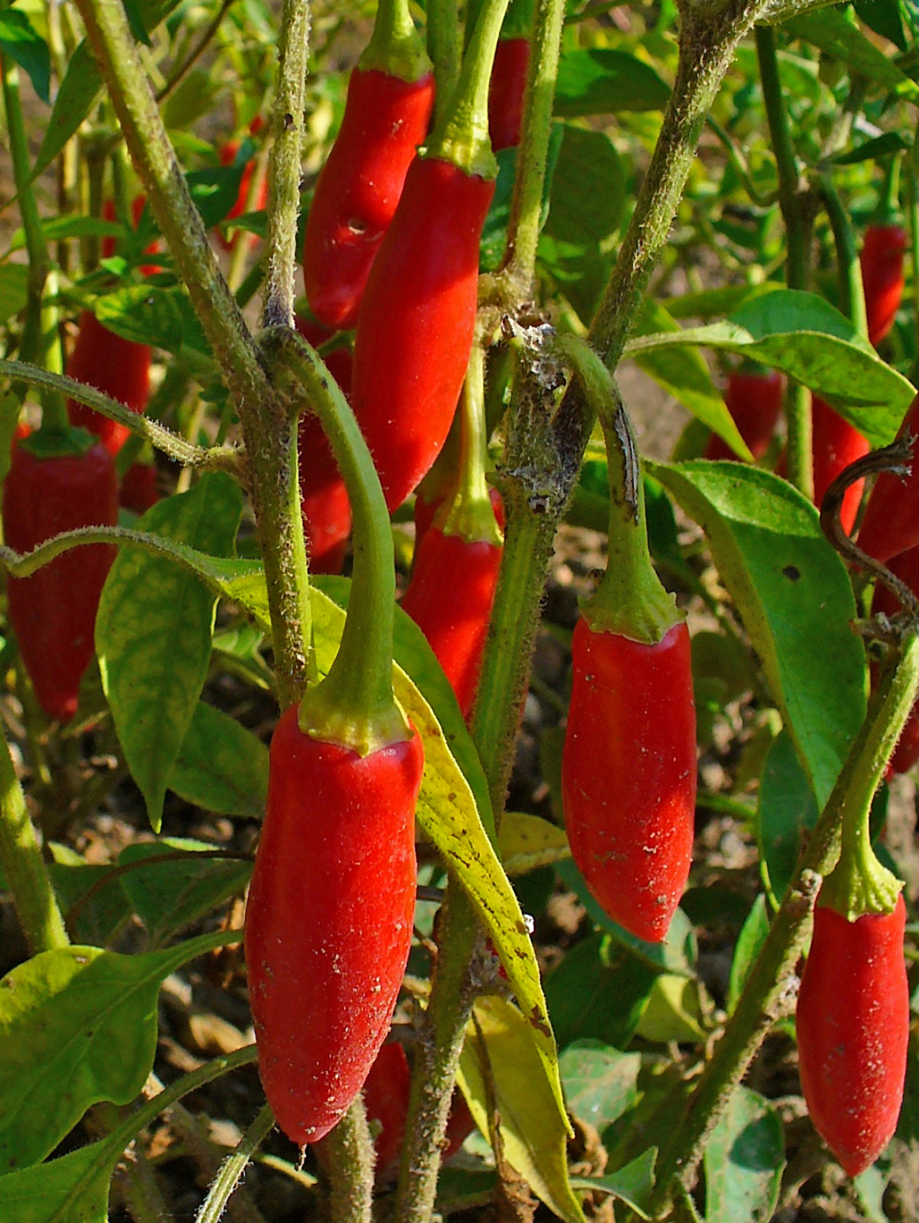 Capsicum frutescens ’Hidalgo’, Solanaceae, Cone Pepper, Tabasco, fruits; Botanical Garden KIT, Karlsruhe, Germany.